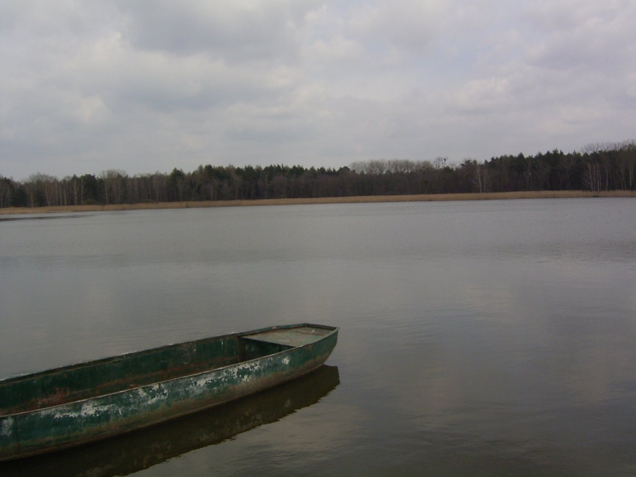 Lodrant, pond in the Eastern Bohemia.